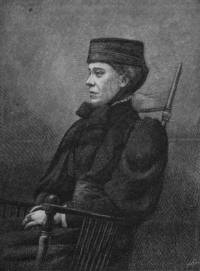 Mary Kingsley - Project Gutenberg eText 13103 Keeling